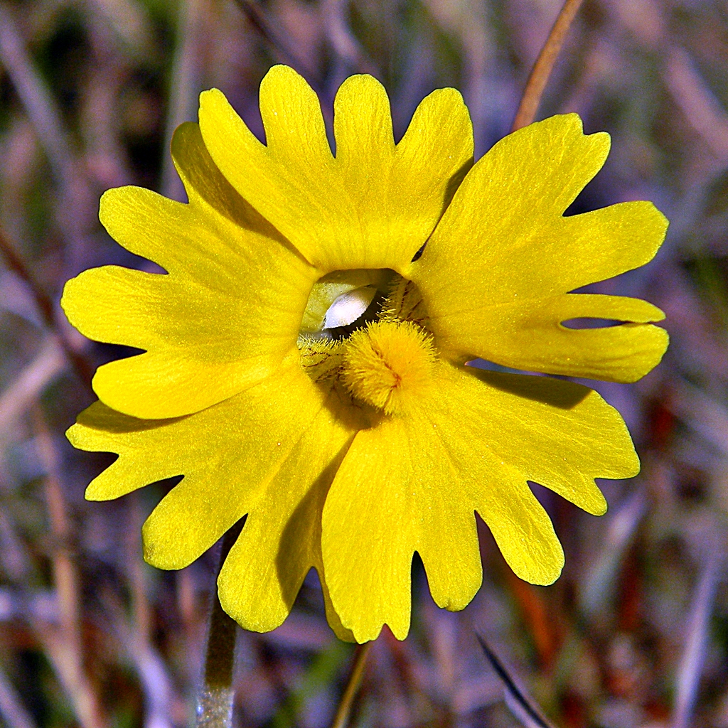 A yellow butterwort blooming in the flatwoods at Jonathan Dickinson State Park. These far outnumbered their beautiful blue butterwort cousins! I was really lucky to get any photos at all as this was another windy day and these flap like flags in the wind. This beautiful lady supplements her diet by trapping flies and other small insects on her sticky leaves, dissolving them and absorbing the nutrients!